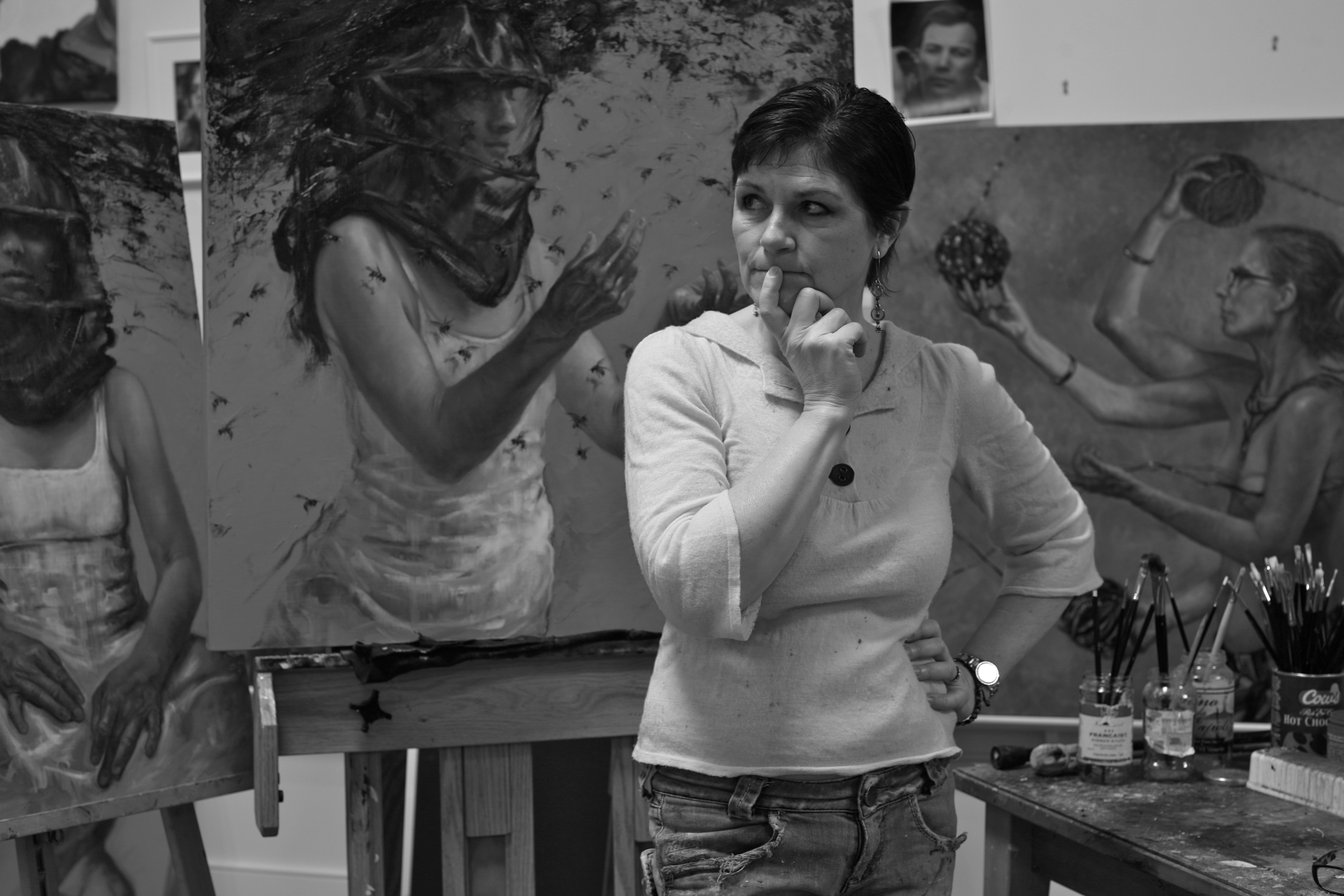 Photo of Artist, Judy Takács in her studio